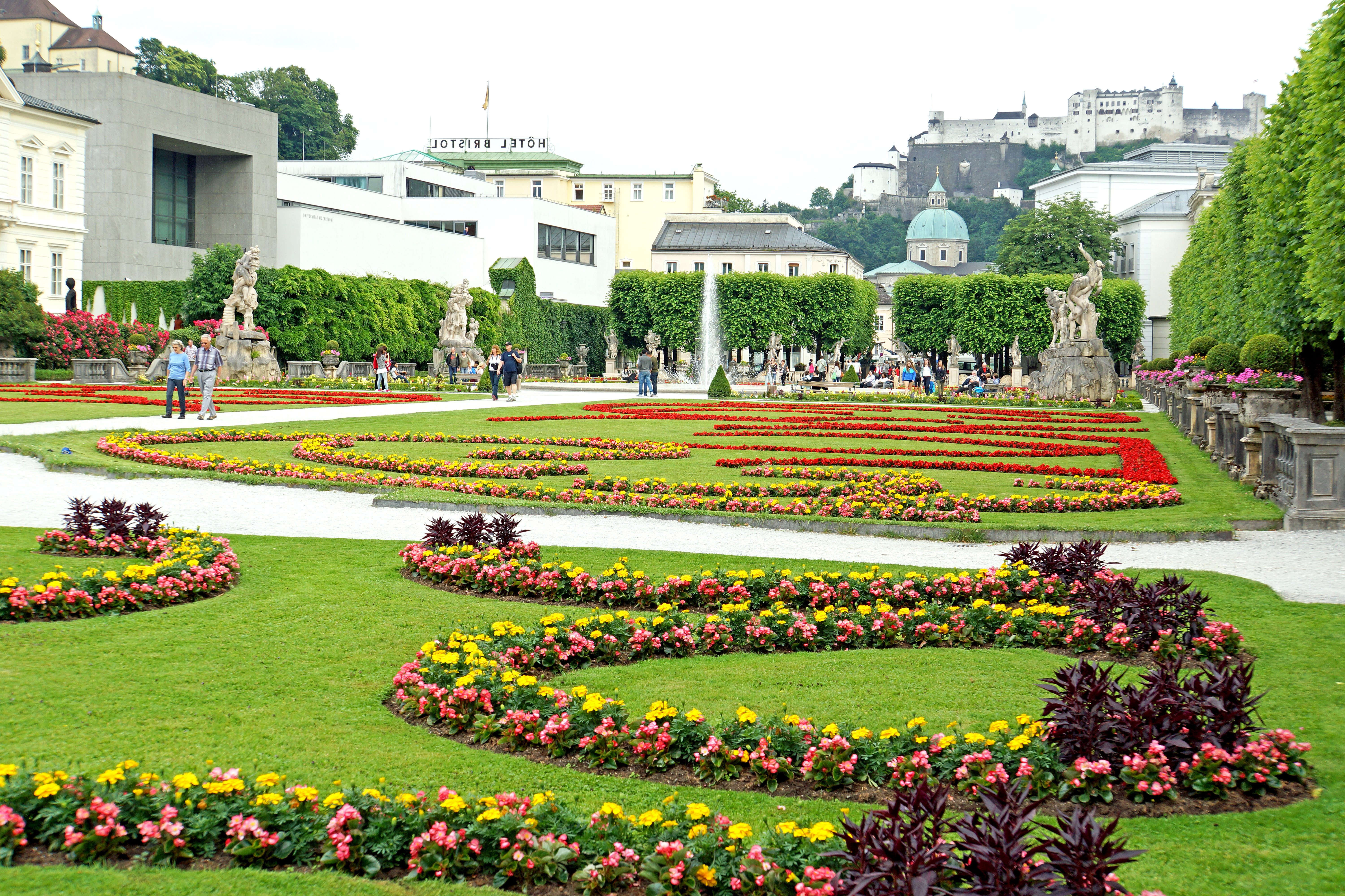 The famous Mirabell Gardens were redesigned around 1690 under Prince-Archbishop Johann Ernst Graf von Thun to plans by Johann Bernhard Fischer von Erlach and completely remodeled around 1730 by Franz Anton Danreiter. The Mirabell Gardens were opened to the public by Emperor Franz Joseph in 1854. Today they are a horticultural masterpiece.